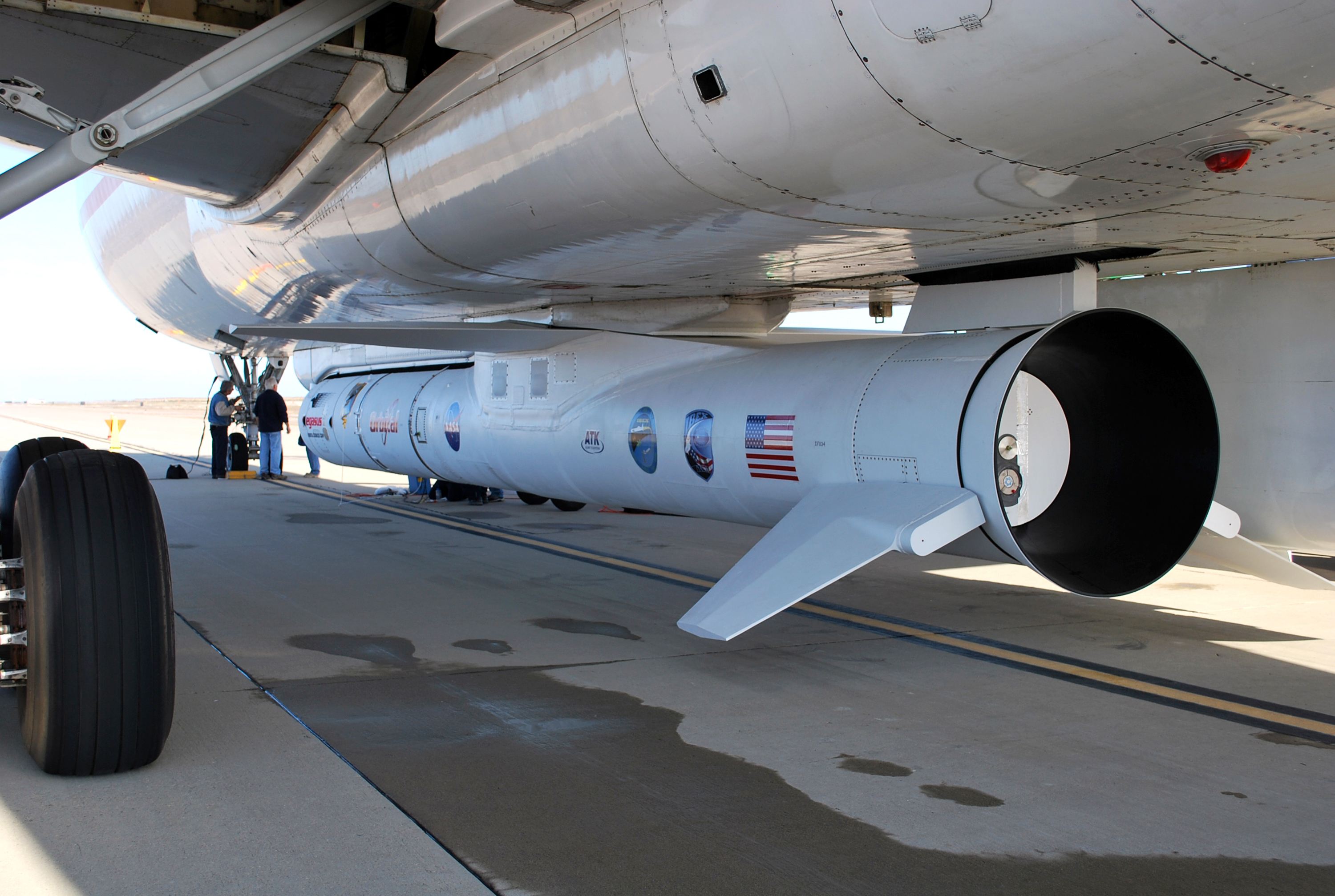 VANDENBERG AIR FORCE BASE, Calif. – On the ramp of Vandenberg Air Force Base in California, workers make final checks of the Pegasus XL rocket before departure for the Kwajalein Atoll, a part of the Marshall Islands in the Pacific Ocean. Mated to NASA’s Interstellar Boundary Explorer, or IBEX, spacecraft, the Pegasus is attached under the wing of the aircraft for launch. Departing from Kwajalein, the Pegasus rocket will be dropped from under the wing of the L-1011 over the Pacific Ocean to carry the spacecraft approximately 130 miles above Earth and place it in orbit. Then, the spacecraft’s own engine will boost it to its final high-altitude orbit (about 200,000 miles high) — most of the way to the Moon. The IBEX satellite will make the first map of the boundary between the Solar System and interstellar space. IBEX science will be led by the Southwest Research Institute of San Antonio, Texas. IBEX is targeted for launch over the Pacific Oct. 19. Photo credit: NASA/Randy Beaudoin, VAFB